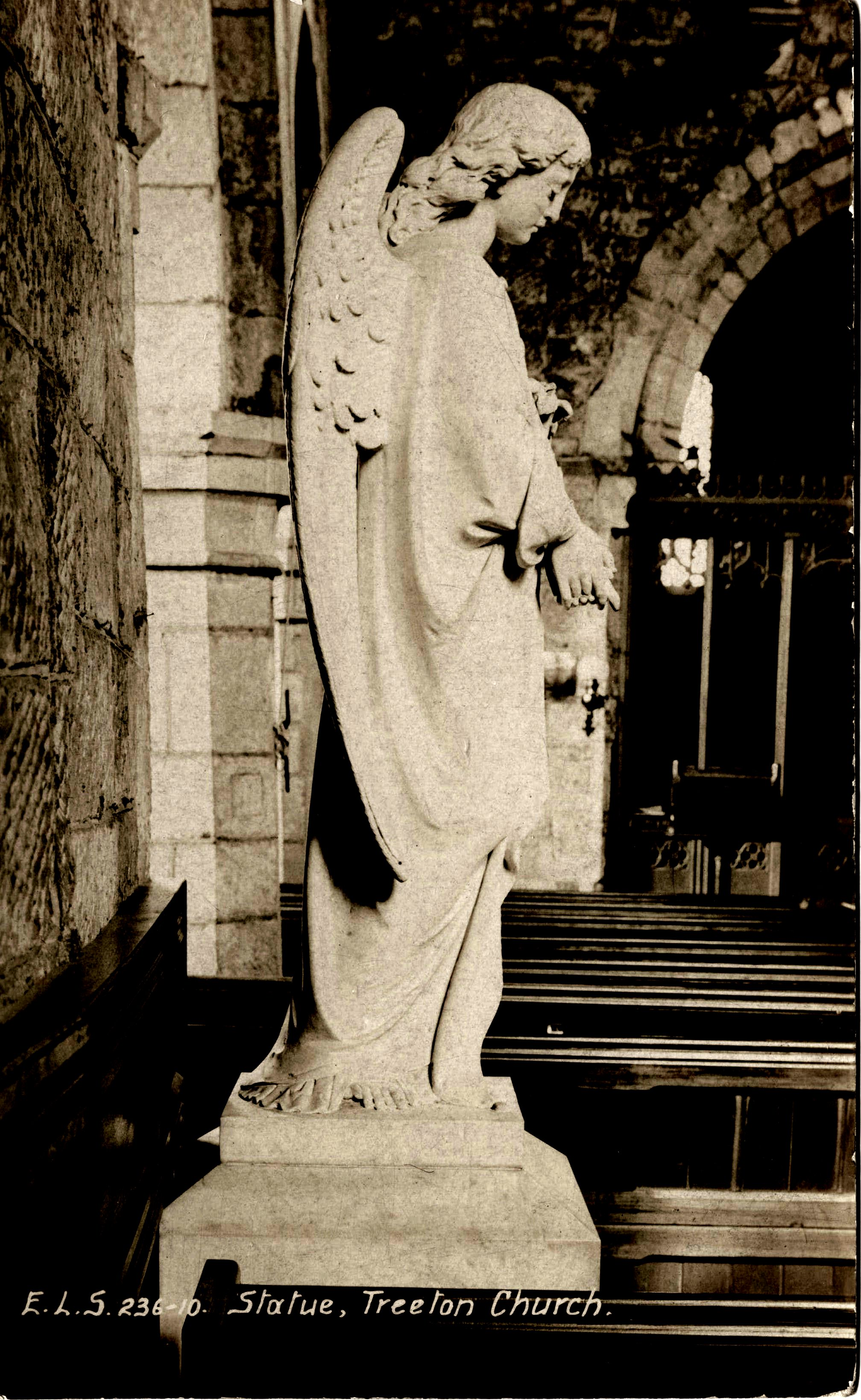 Statue, possibly of the archangel St Michael, in St Helen's Church, Treeton, Sheffield, South Yorkshire, England. Note 1: The fourth upload reveals the dragon's head, looking around St Michael's upper left arm. Note 2: This could possibly be the statue of St Michael which went missing from the records of Church of St Michael and All Angels, Beckwithshaw. It matches the 1887 description: "group of St Michael overcoming the Dragon."